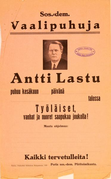 Member of the Parliament of Finland Antti Lastu (1882-1970) in a 1929 election poster.